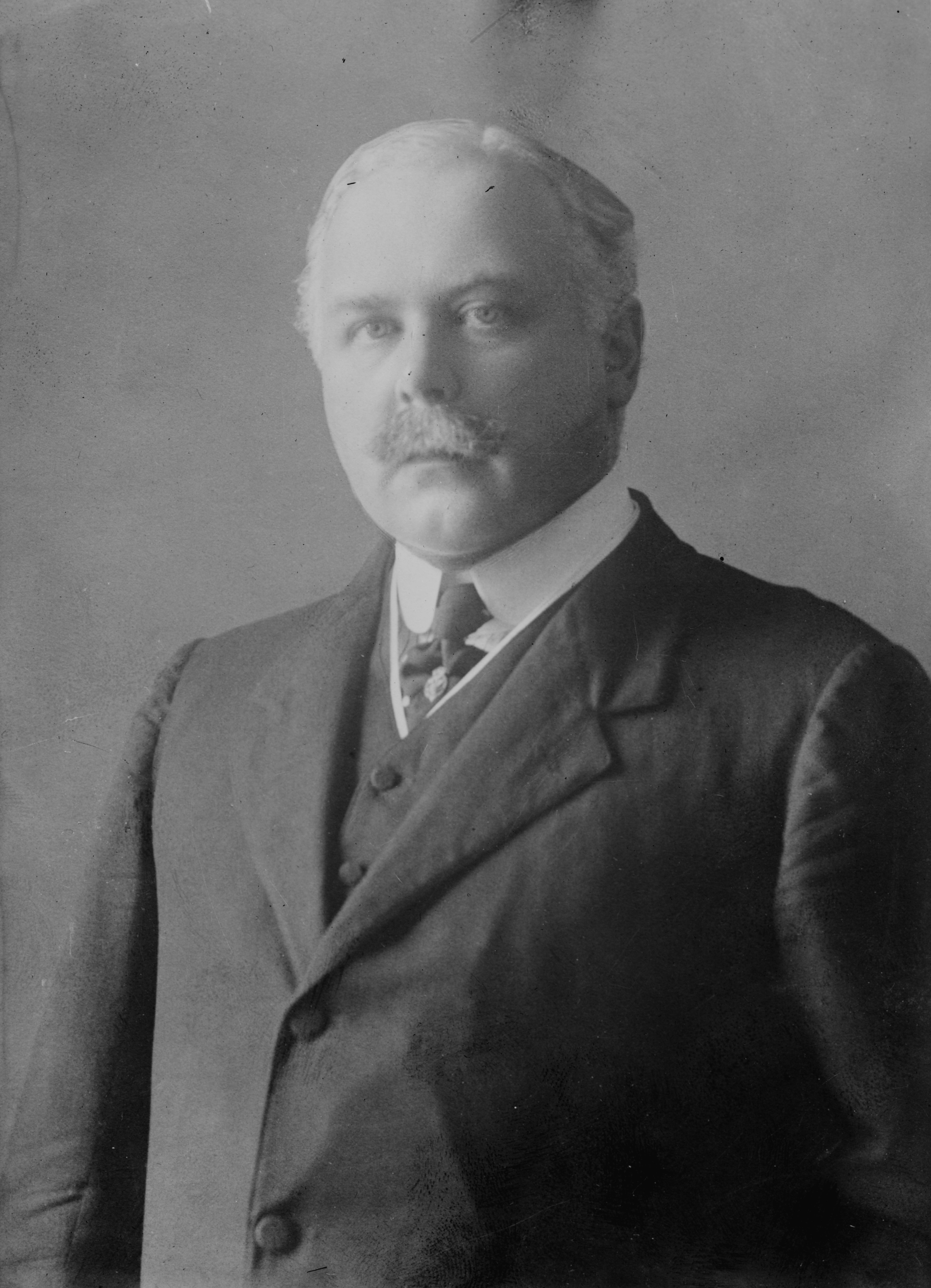 Lord Murray of Elibank